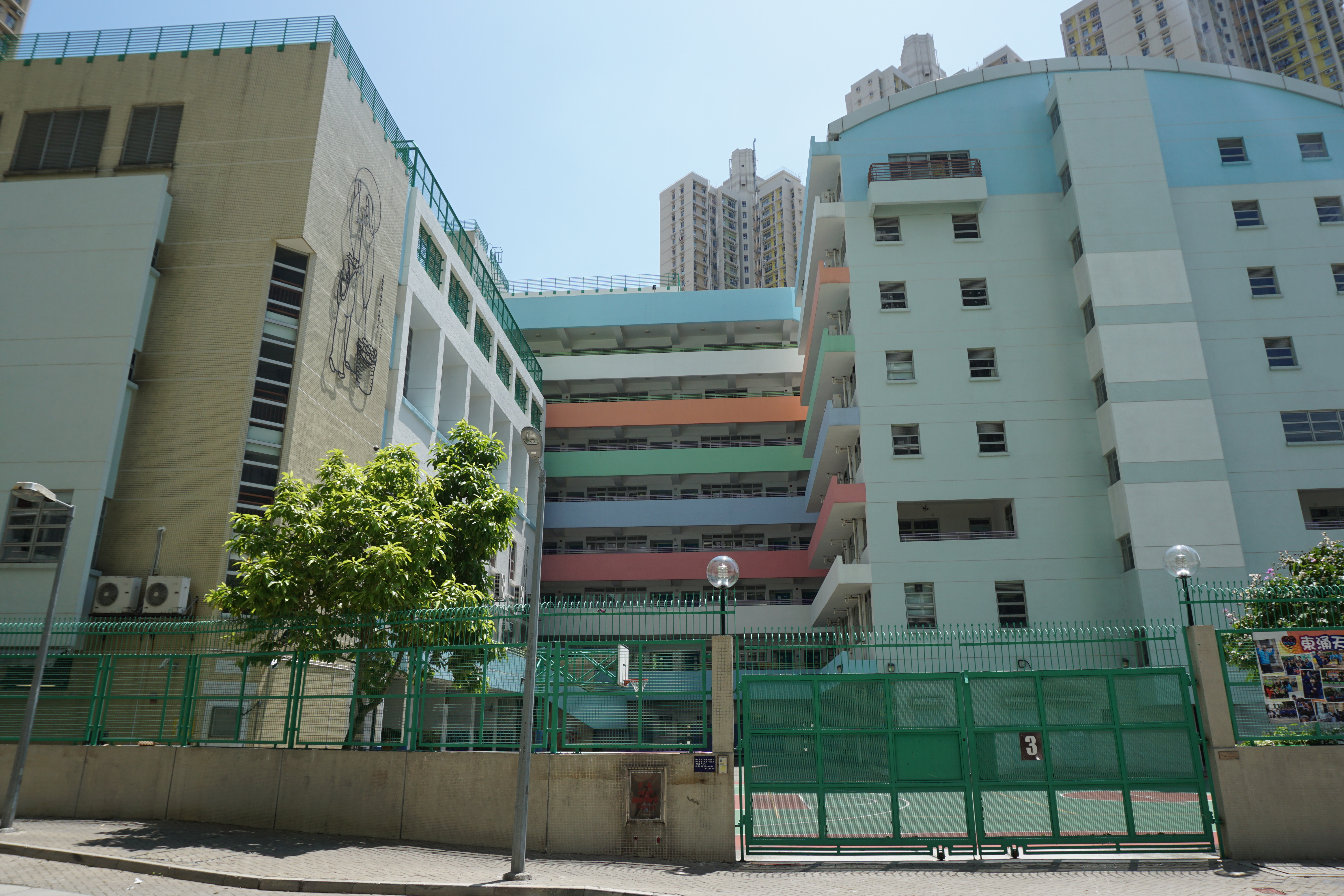 Catholic School (secondary) in Tung Chung, Hong Kong.